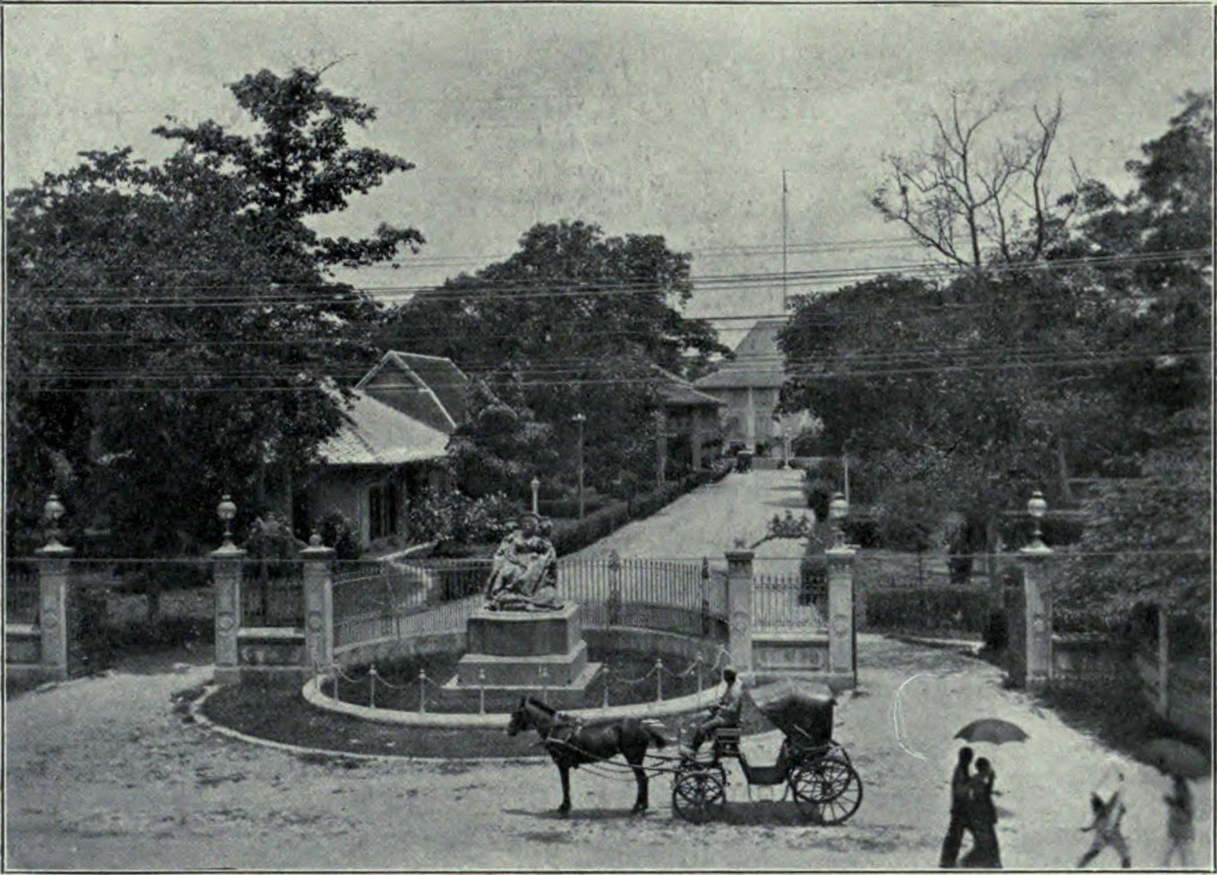 "The British legation", from Twentieth Century Impressions of Siam, p. 239.